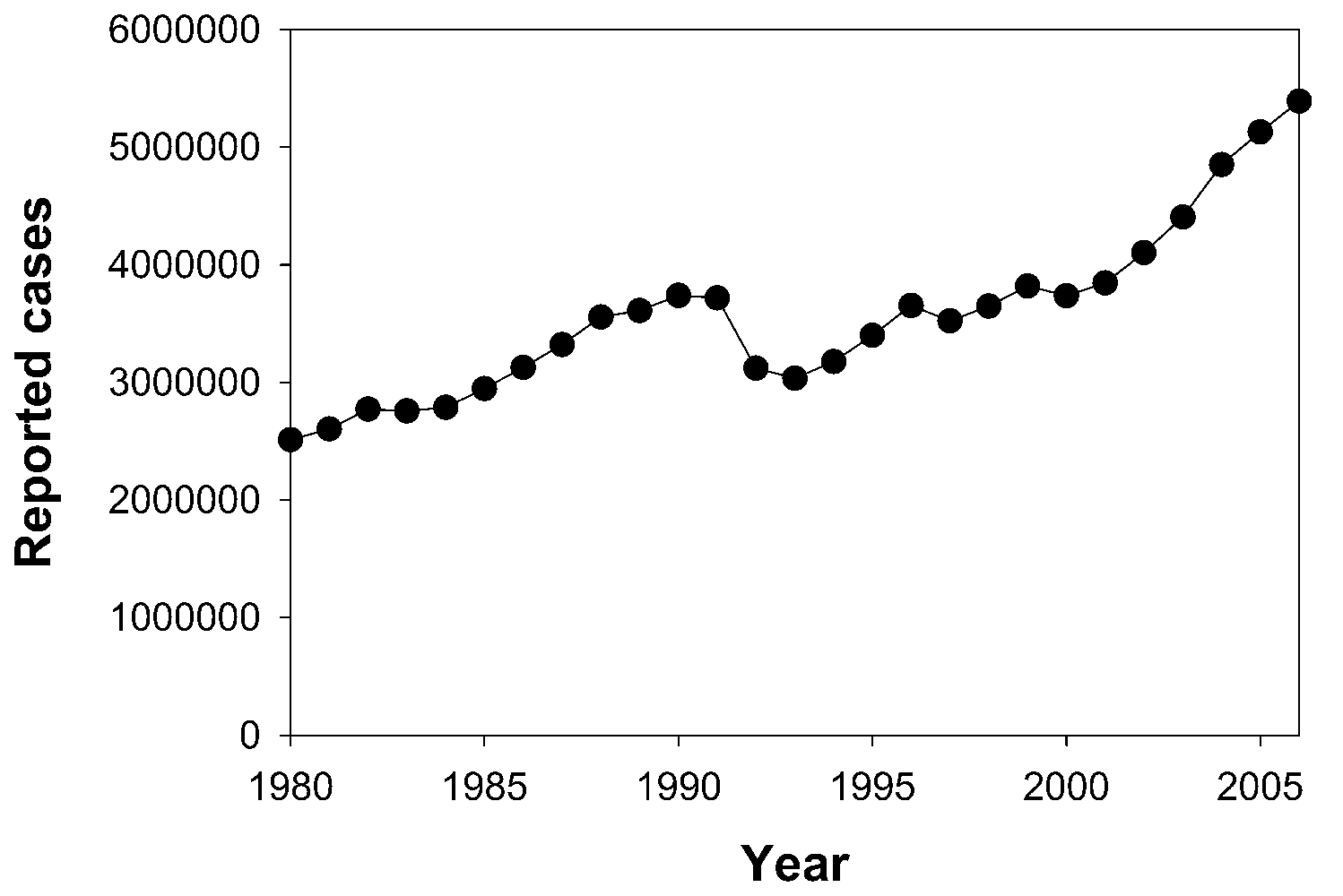 I am author, created from data in annex 2 of Global tuberculosis control - surveillance, planning, financing WHO Report 2006